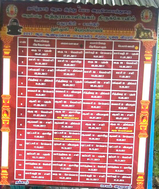 Monthly Special Pooja Details - Year 2017